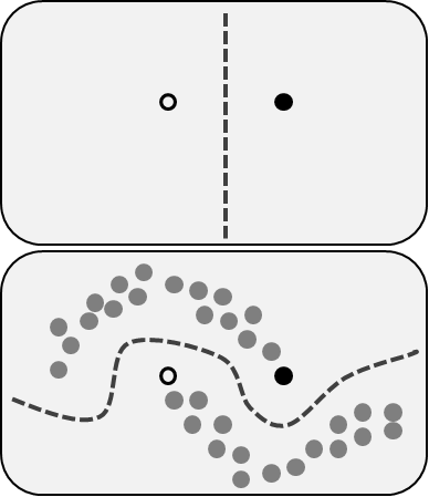 Top panel: decision boundary based on only two labeled examples (white vs. black circles). Bottom panel: decision boundary based on two labeled examples plus unlabeled data (gray circles).